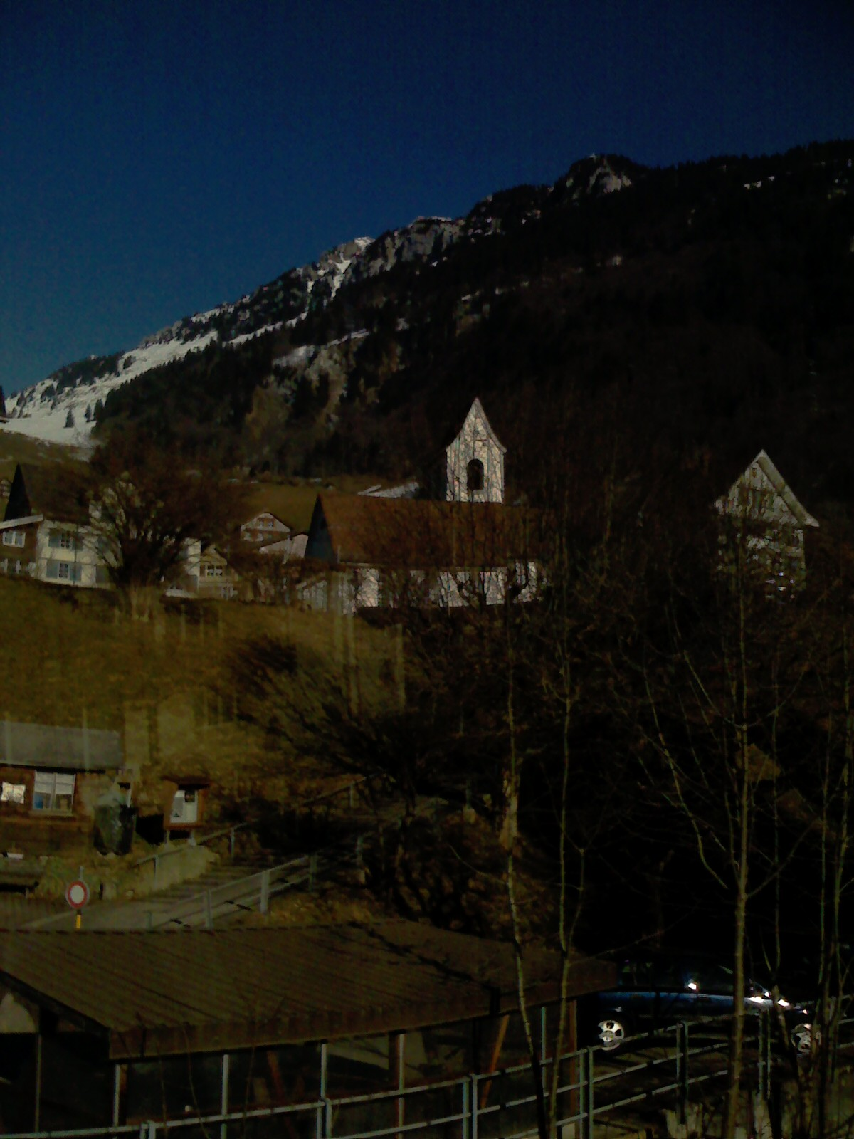 Protestant church of Stein St. Gall - Reformita preĝejo de Stein Sant-Galo